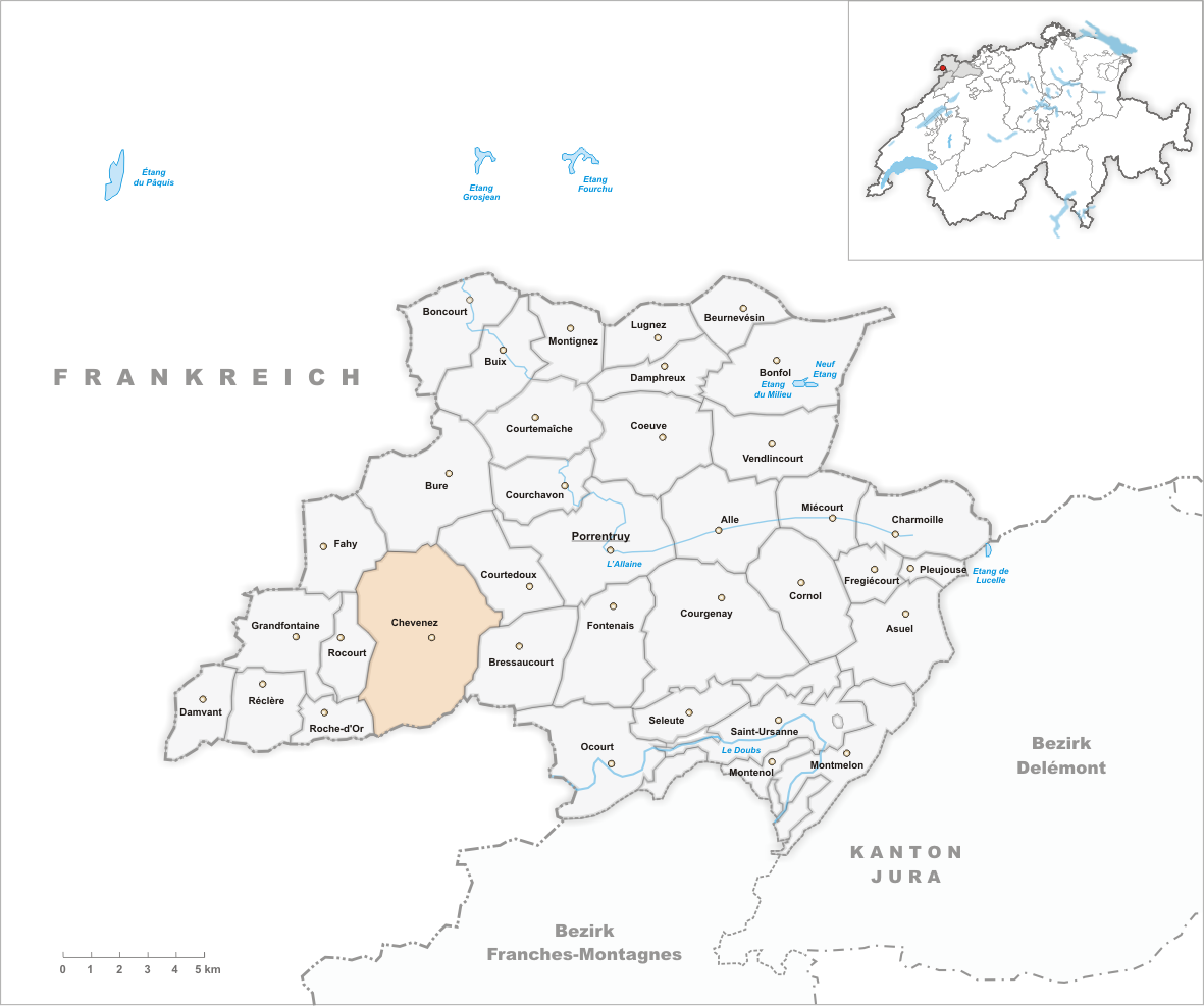 Municipality Chevenez Artist: Tschubby